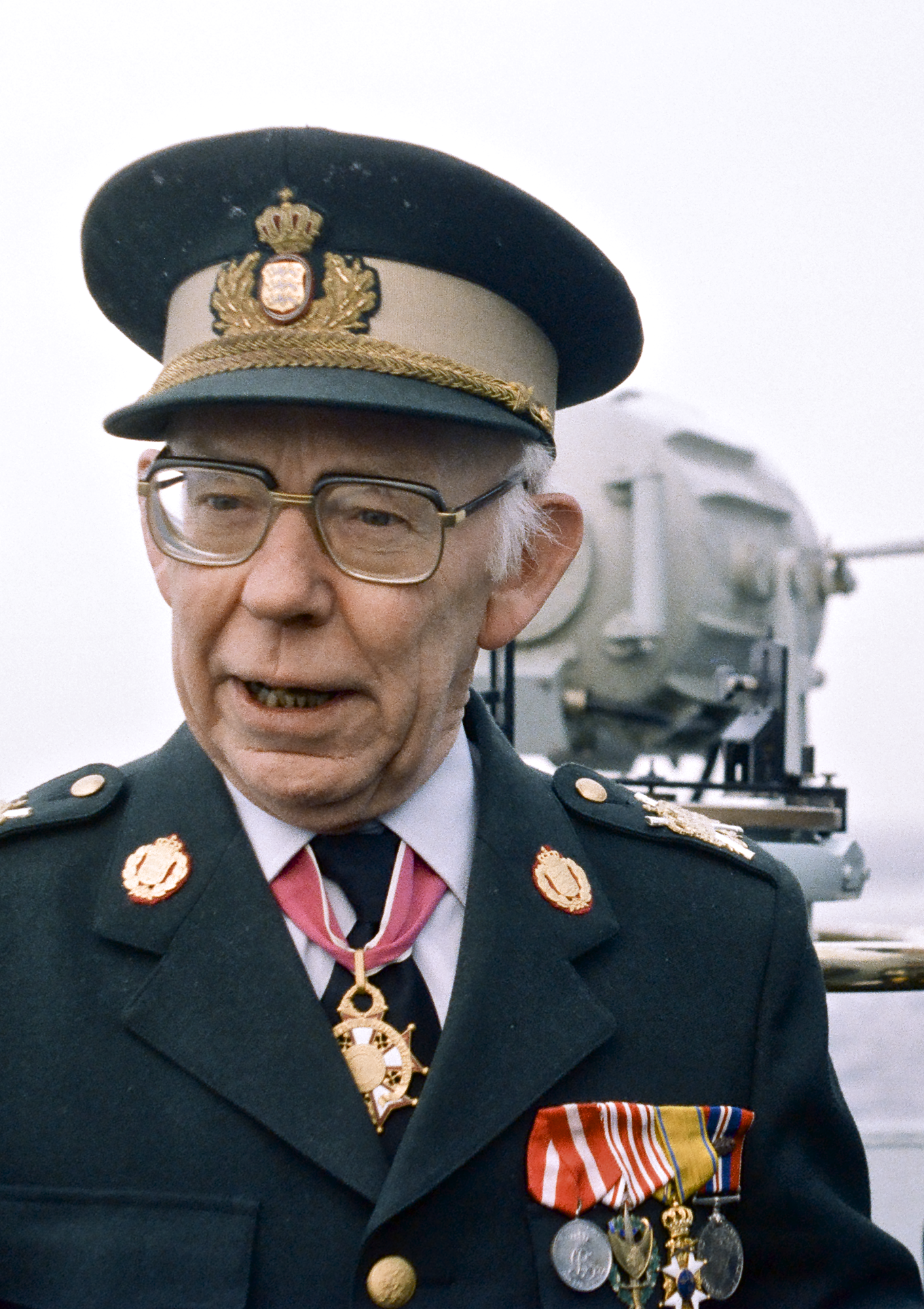 General Otto K. Lind. Note the insignia, it is two crossed generals batons, that insignia was only used for his time in office.